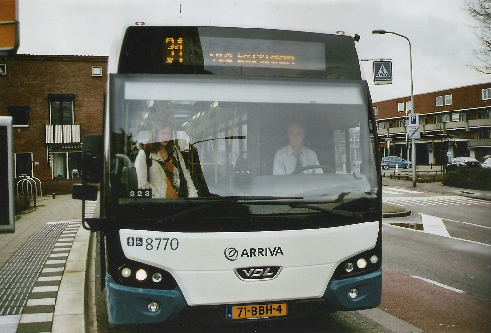 VDL Citea as bus 31 in Katwijk (NL)